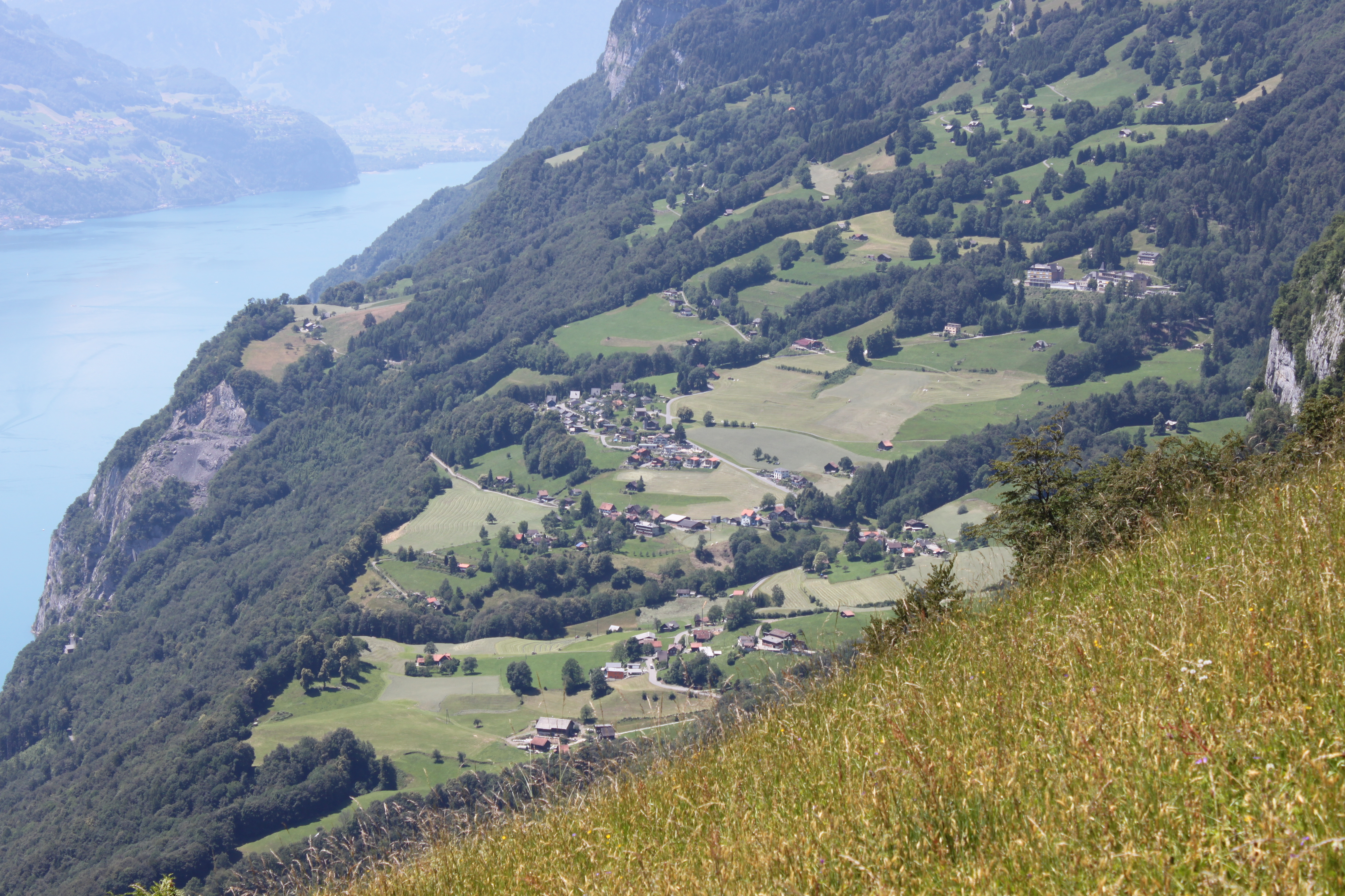 View from Lüsis down to Walenstadtberg with parts of lake of Walenstadt. Unknown